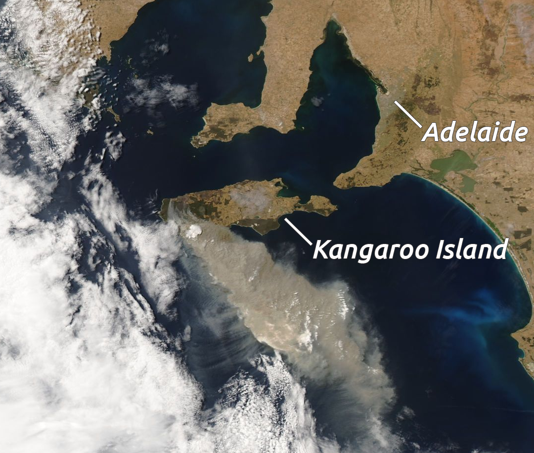 Imagery from NASA Aqua Satellite showing MODIS data of Australian bushfires on Kangaroo Island. Notable landmarks labeled. We acknowledge the use of imagery from the NASA Worldview application ( part of the NASA Earth Observing System Data and Information System (EOSDIS).